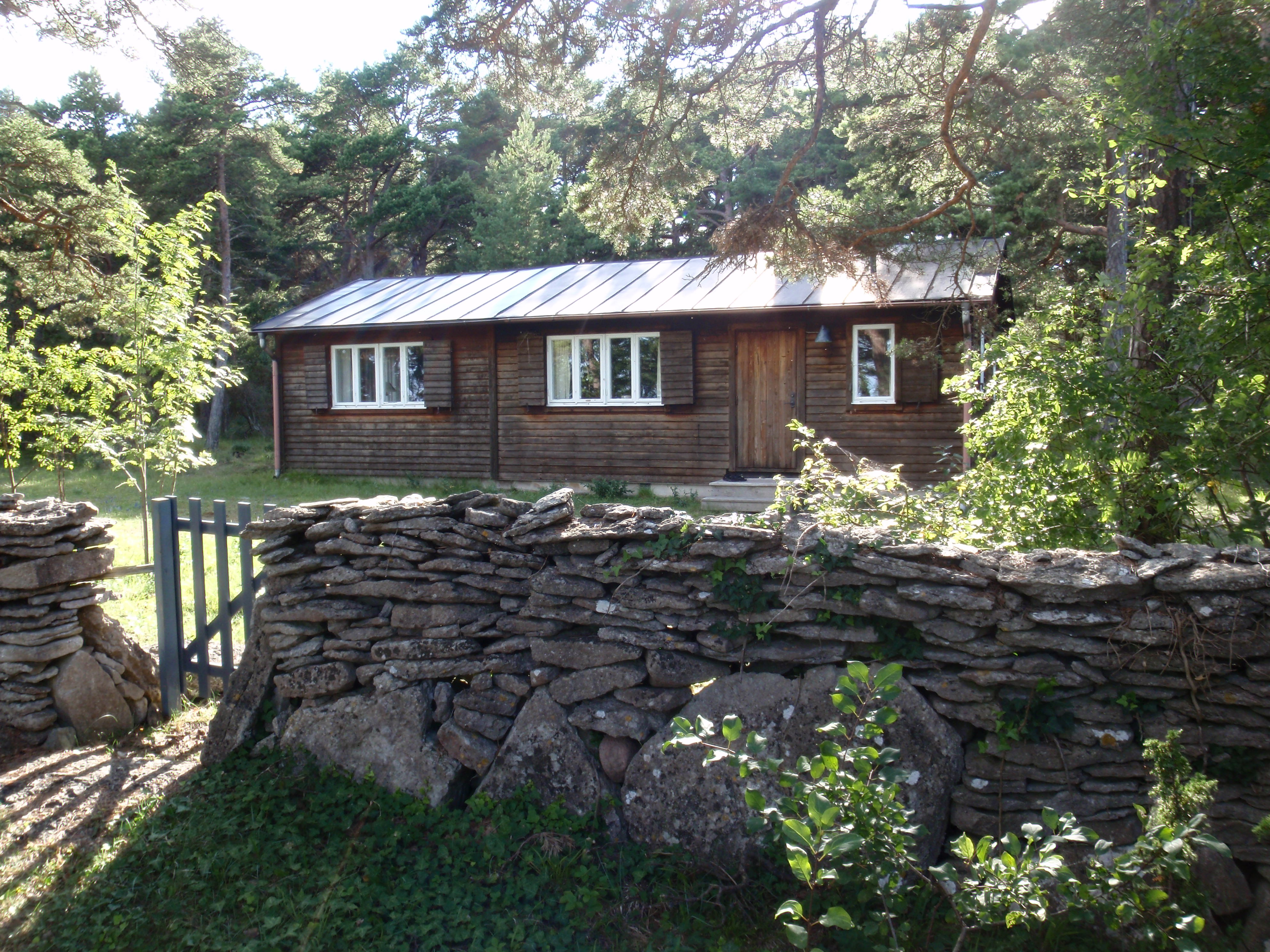 Skrivstugan at Ingmar Bergman´s Hammars at Fårö, Sweden